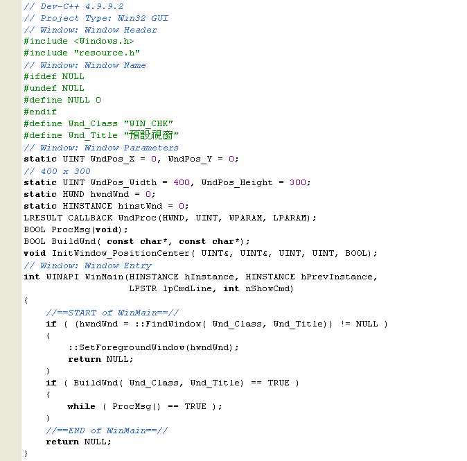 This is a source code sample of C++ programming for explaining Window Entry Point. IDE(Integrated development environment) is Dev-C++ 4.9.9.2.